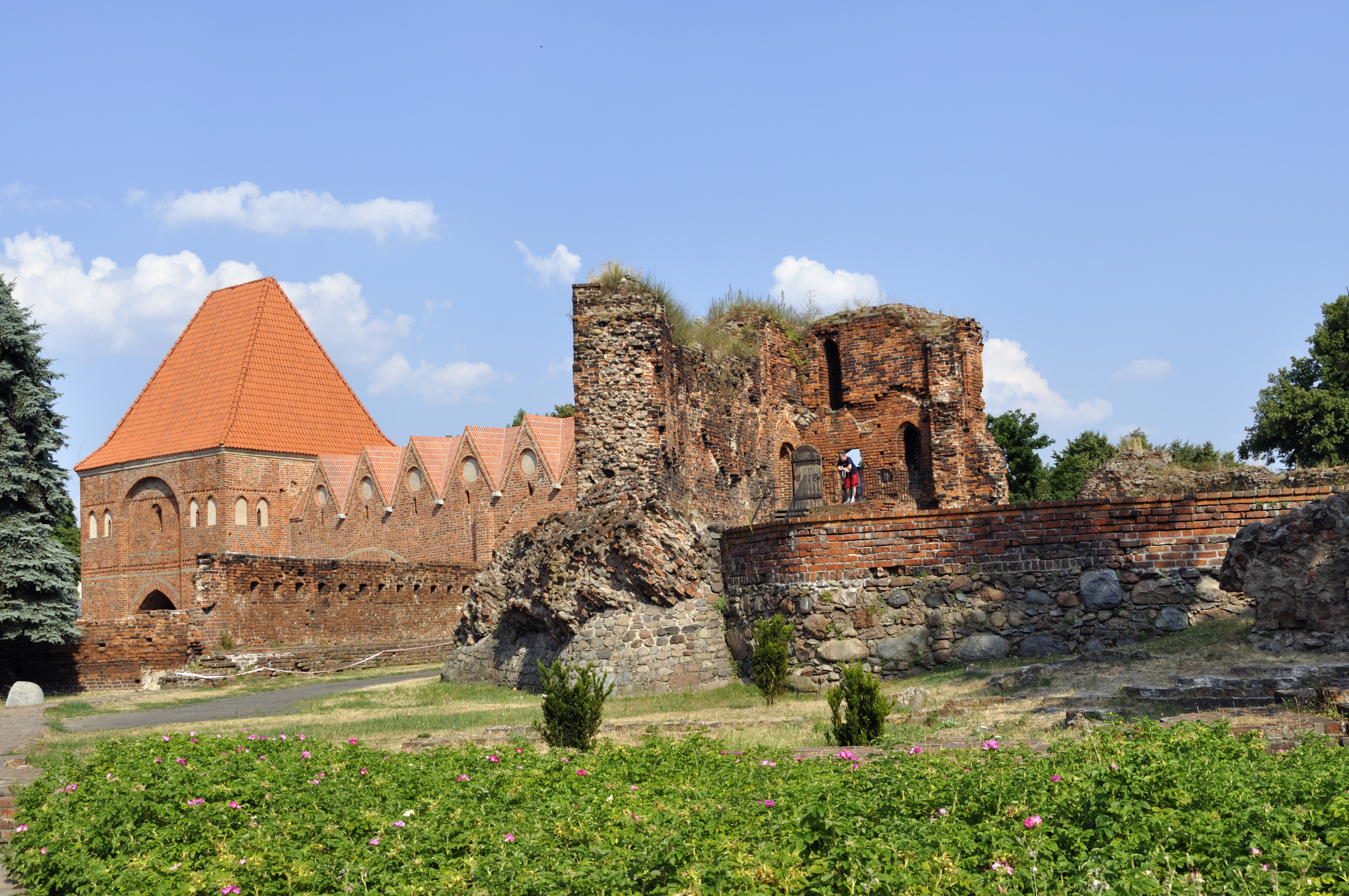 Picture taken in Toruń after Wikimania 2010 conference.